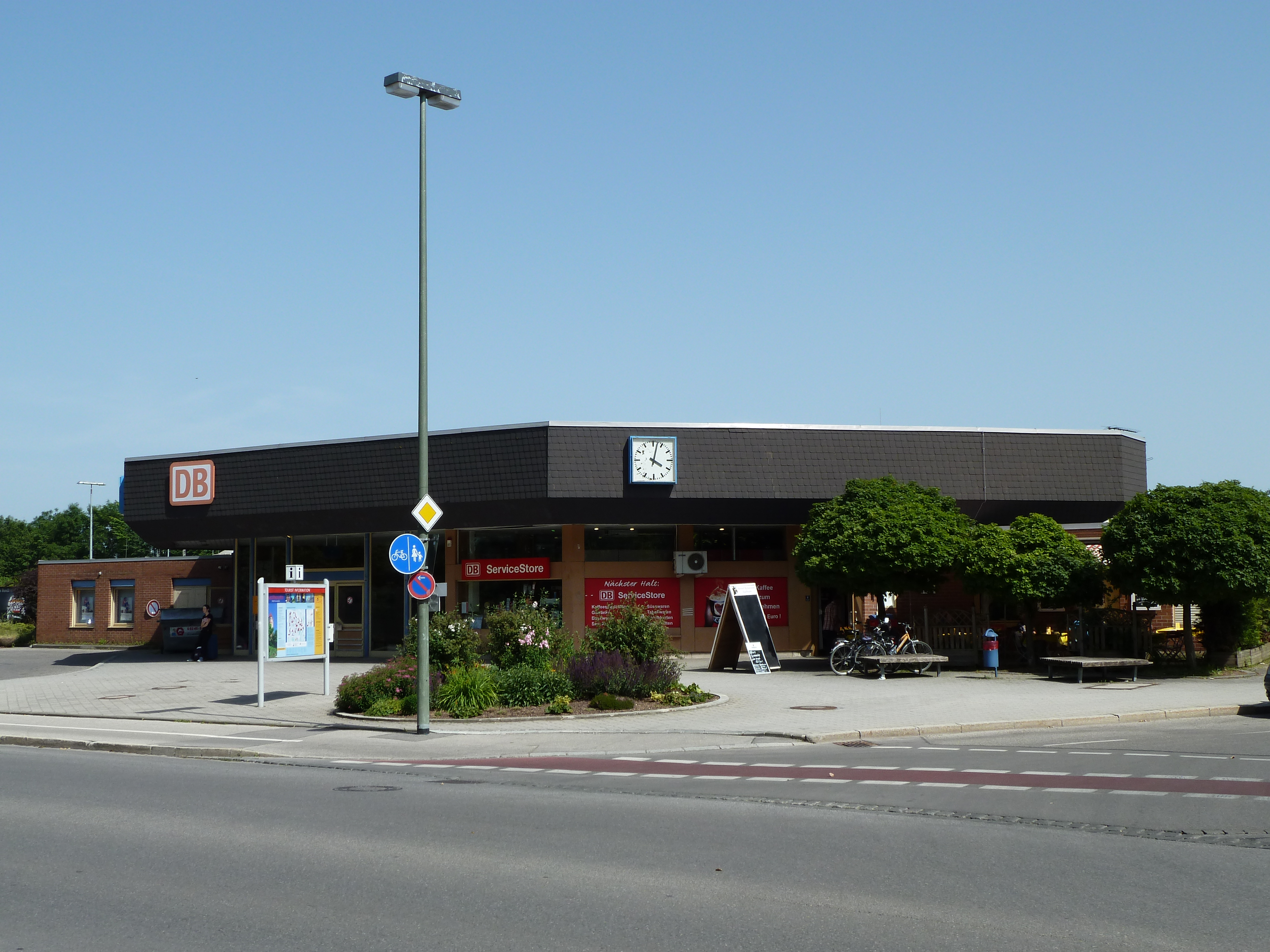 Railwaystation Kaufbeuren